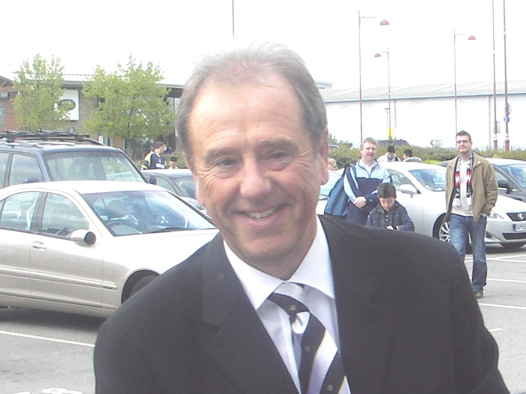 Peter Gadsby, Derby County chairman.